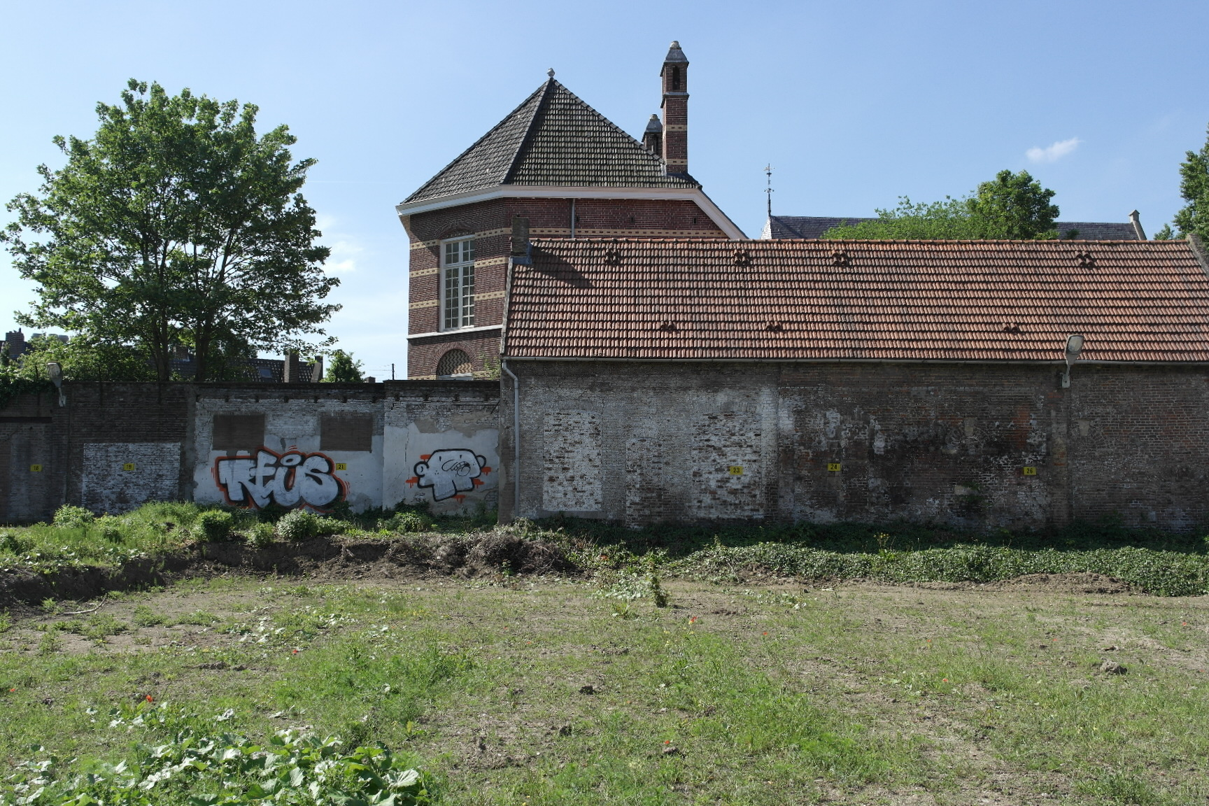 Maastricht, Netherlands. View from the north of the location of the former Jewish cemetery "Den Dries". In the background the chapel of the former Saint Andrew's monastery, visible behind some other buildings.